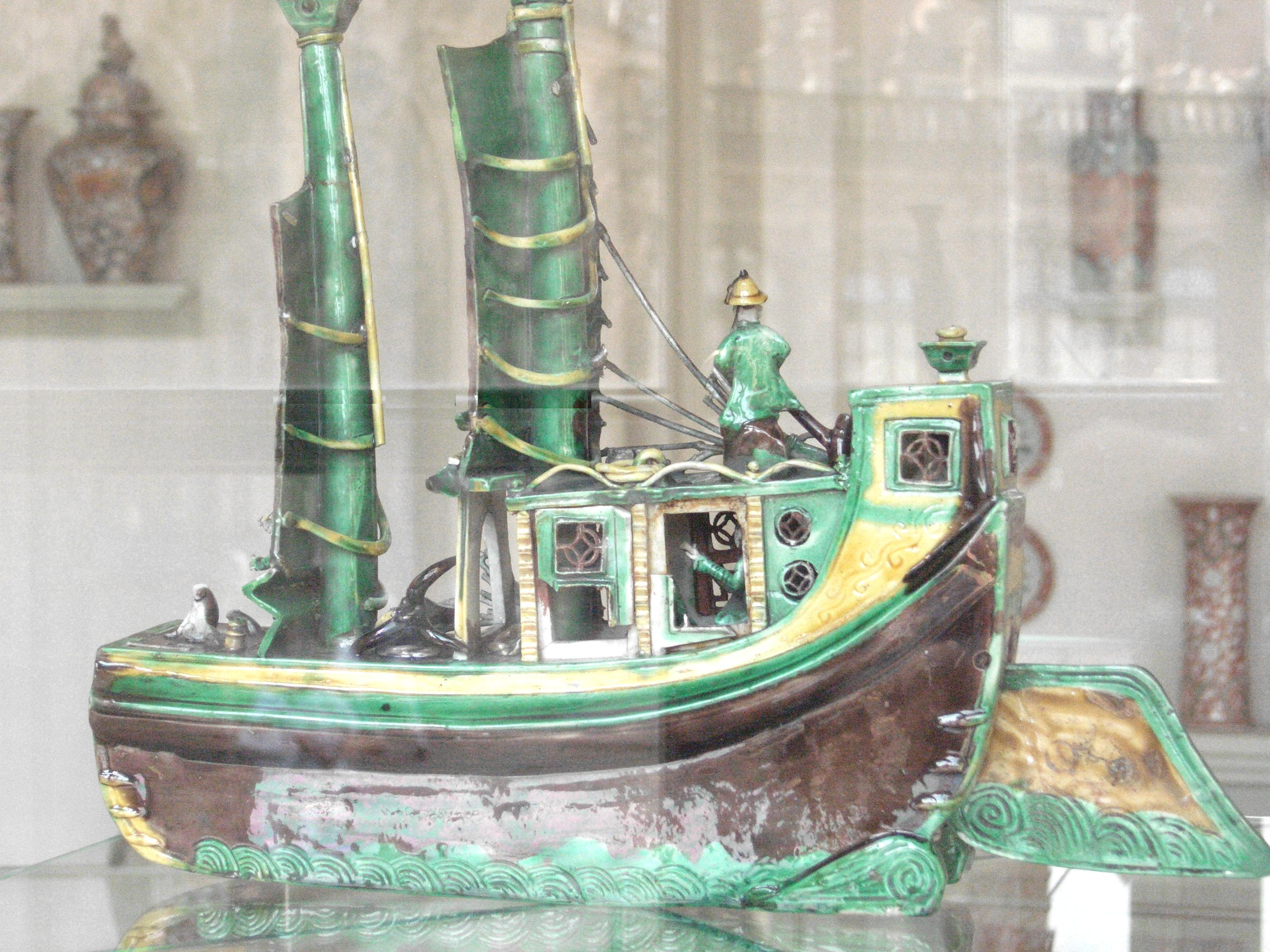 Junk made of Chinese Porcelain - It's a sample of the so called export porcelain exclusively produced for the European market, Porzellansammlung in Dresdner Zwinger